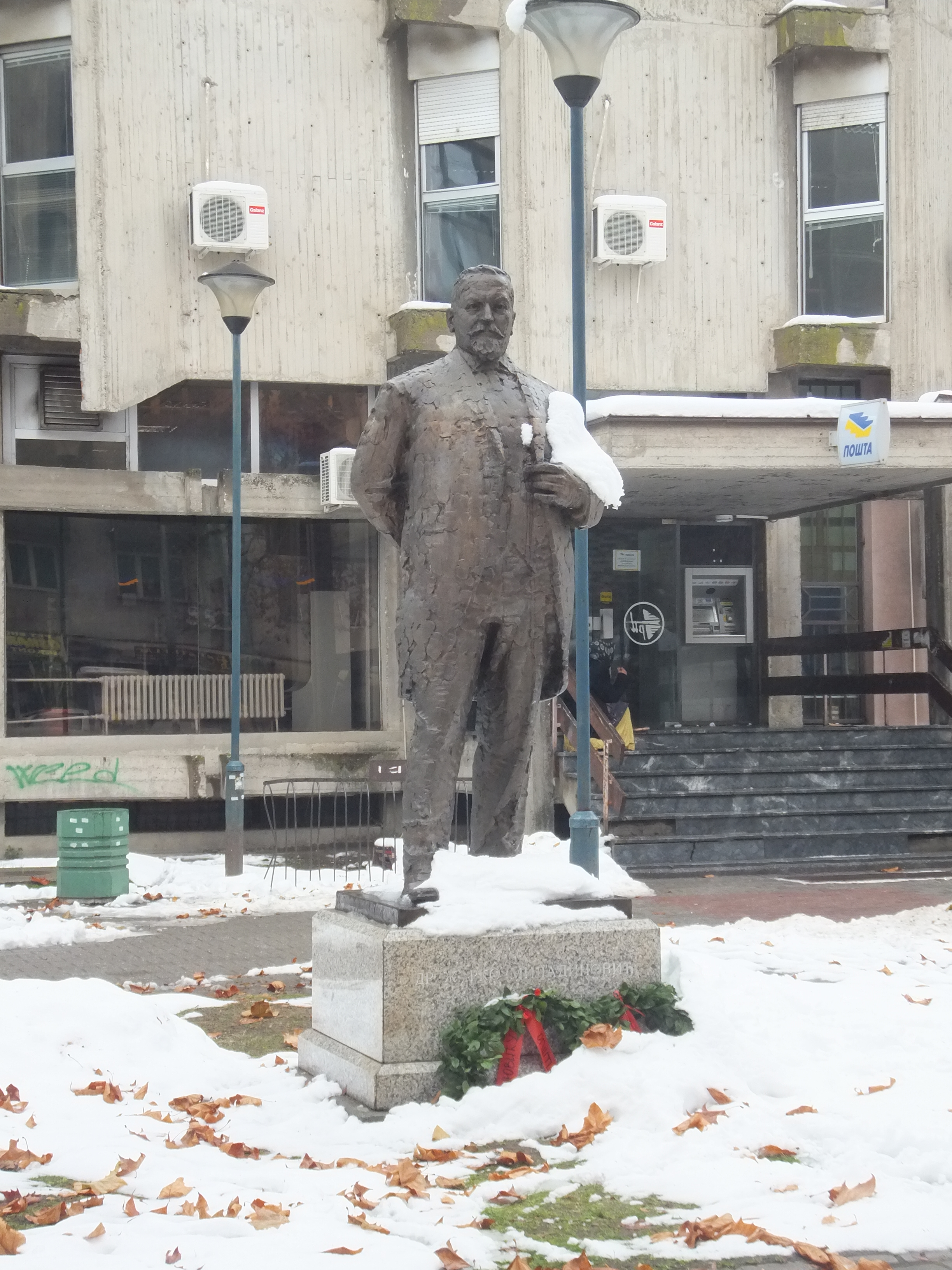 Monument of Žarko Miladinović in Ruma